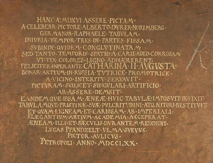 The reverse of Cranach's painting Christ and the Adultress